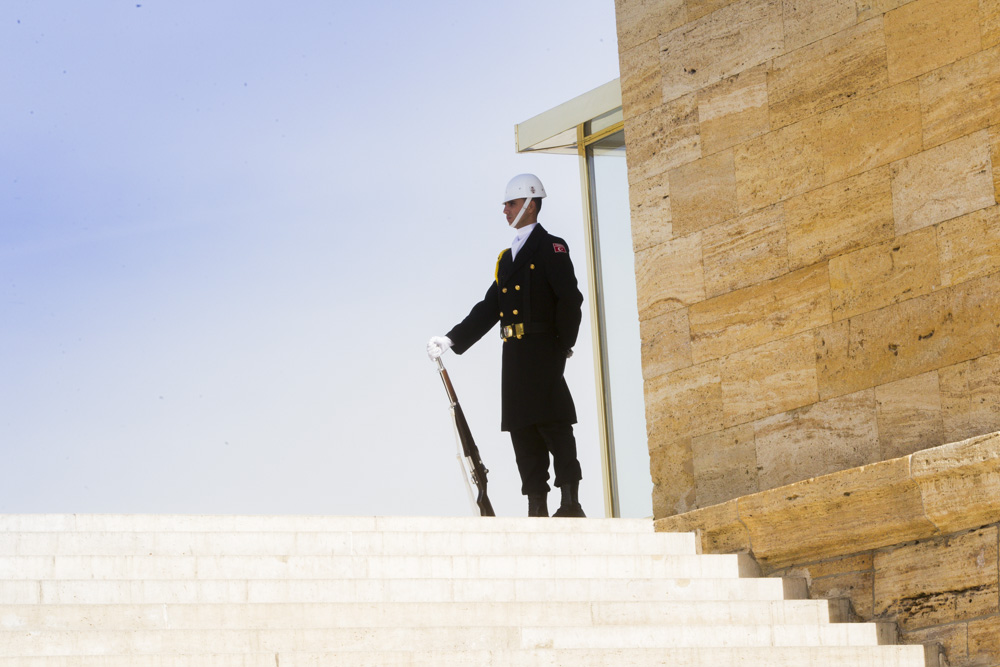 A Turkish soldier stands guard at the Anıtkabir Mausoleum.